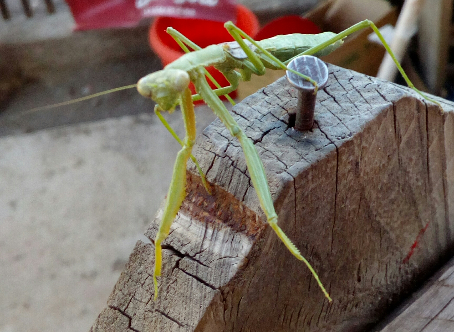 Mantis, specie Coptopteryx gayi in Biobío region, Chile.